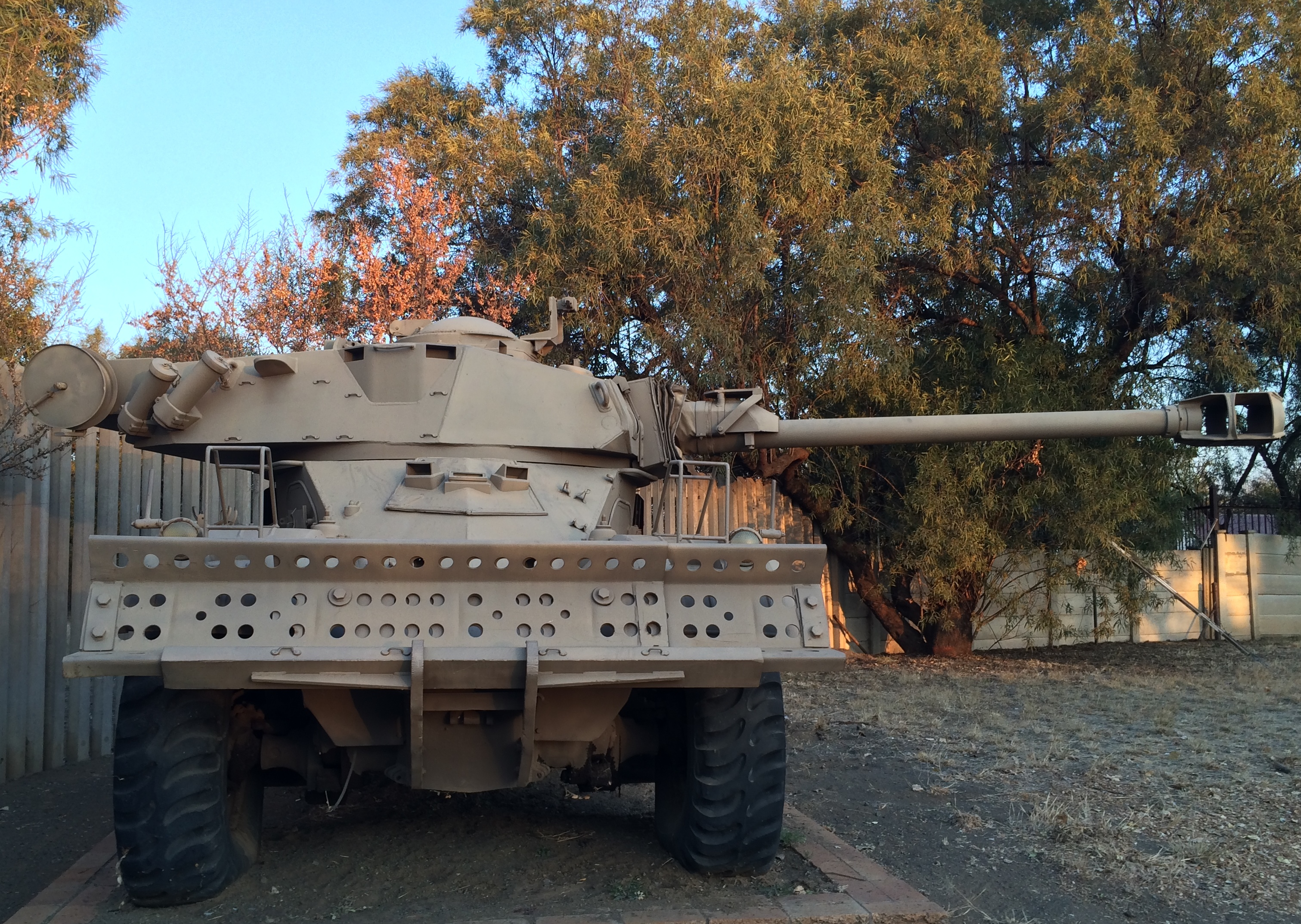 Description: Eland Mk7 Armoured Car with disabled 90mm gun at the end of Furstenburg Road, Bloemfontein. 2014.